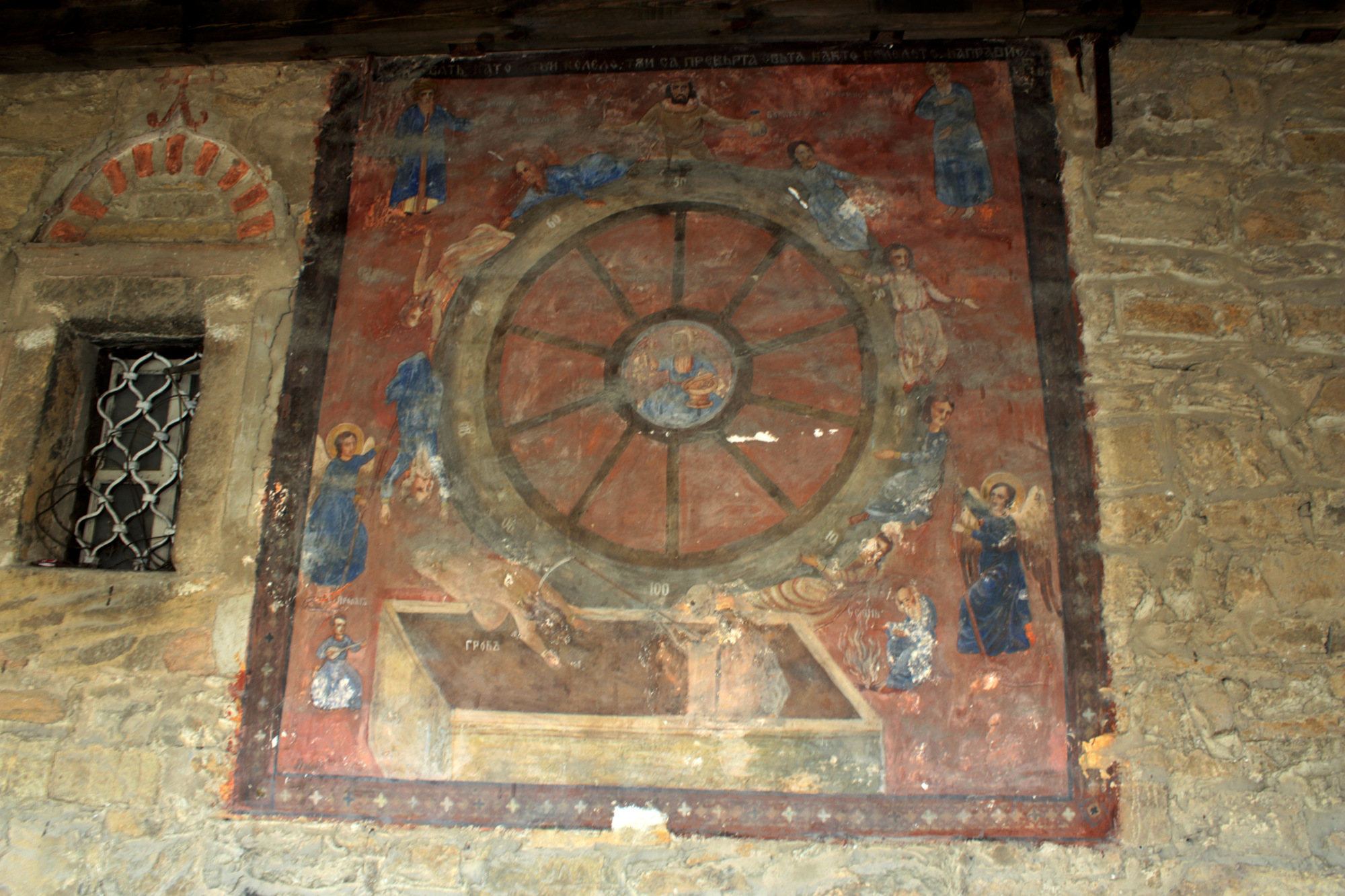 Old fresco "Circle of Life" from the Church in Pchelishte, Bulgaria